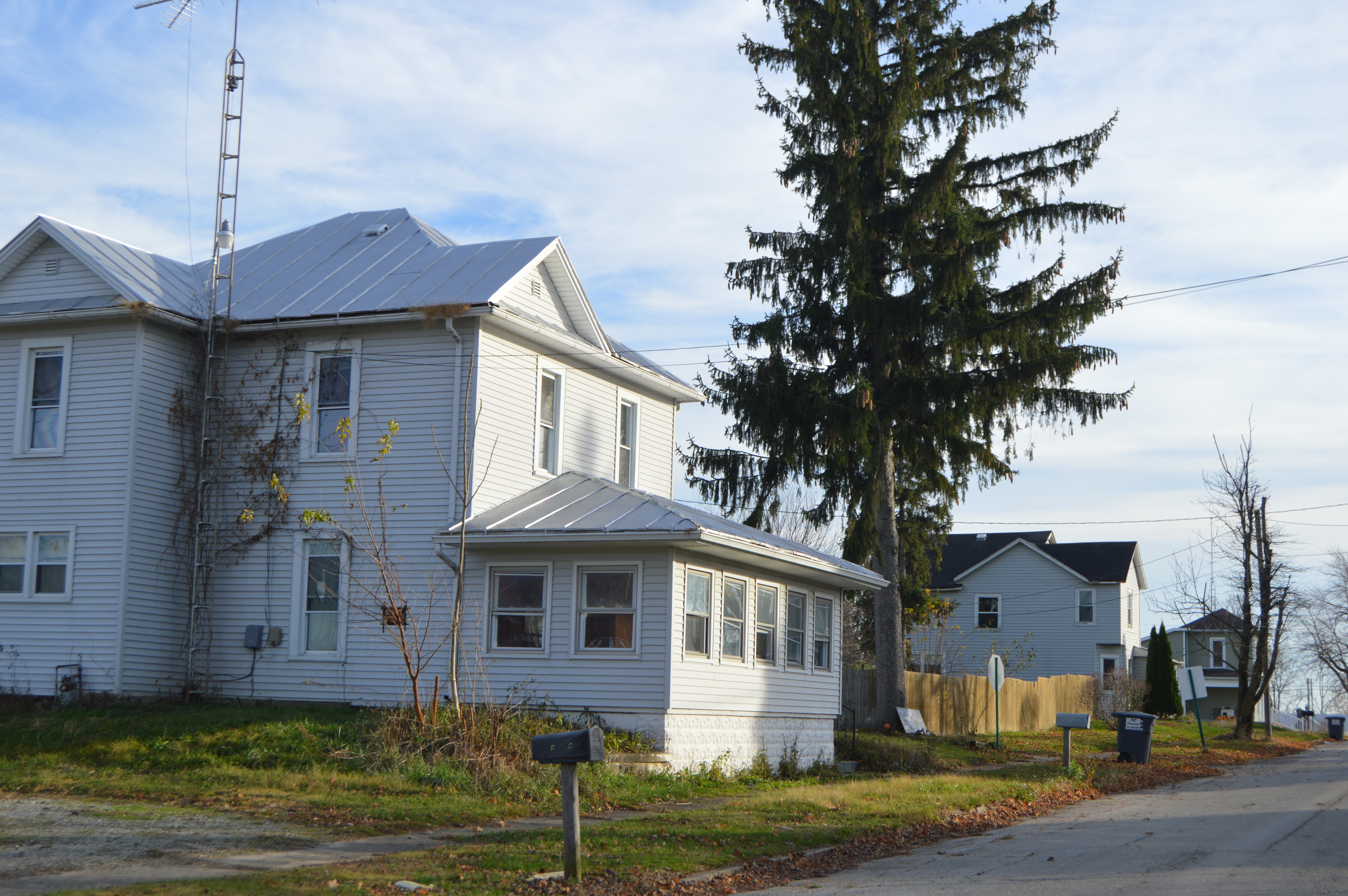 Houses on the eastern side of Elm Street at the Pease Street intersection in Hollansburg, Ohio, United States.